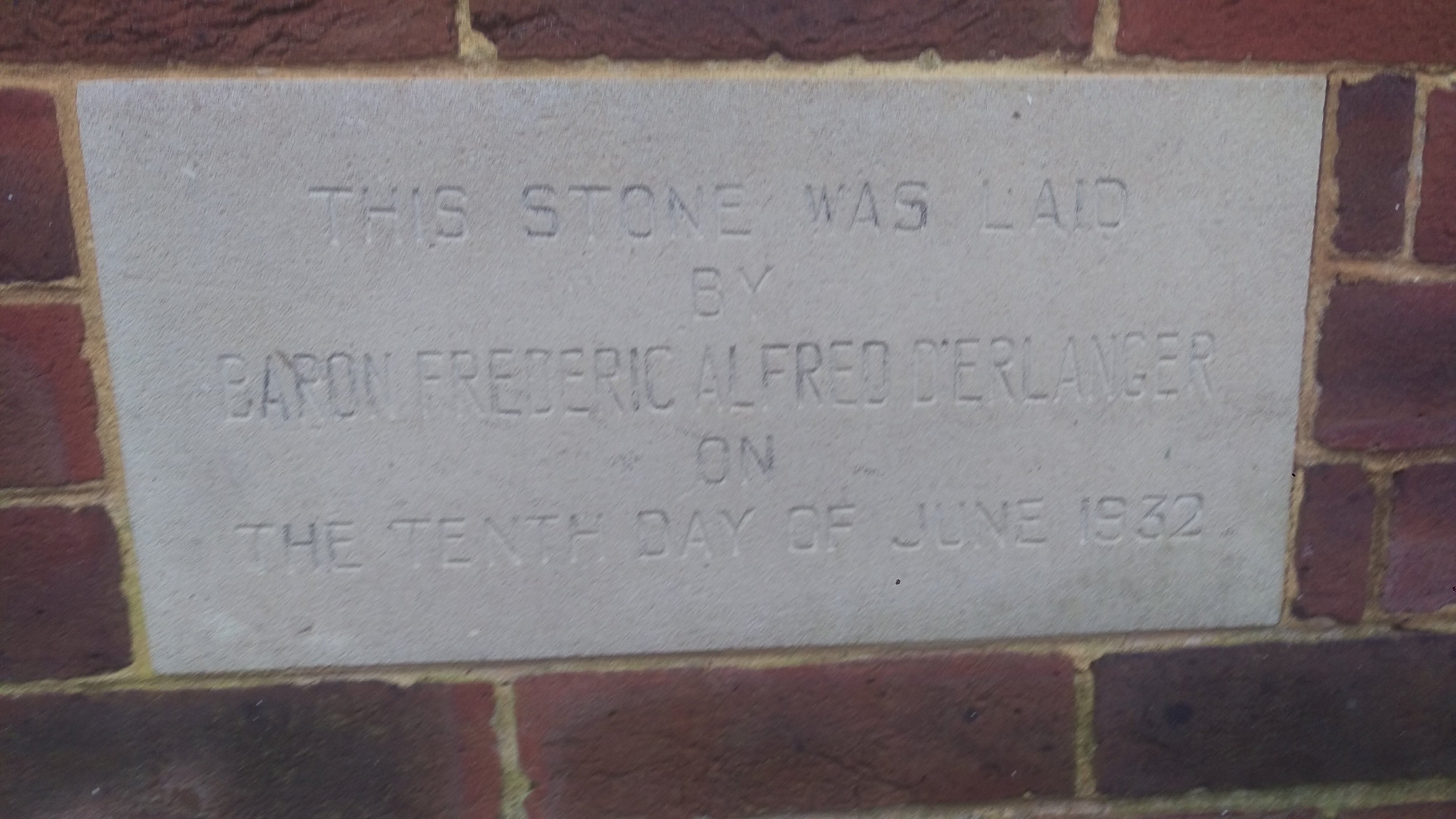 Plaque on Merebank House, near Dorking, to say that Baron Frédéric Alfred D'Erlanger, the composer of the opera Tess and other operatic, musical and ballet works, founder of the Oxford and Cambridge Musical Society, laid this stone (the 5 bedroom detached house was built for the retired members of the musicians union, not him, and showed on a local postcard as the musicians pension fund convalescent home, Holmwood; Baron D'Erlanger laid the foundation stone, was present at its opening, and a performance of his opera Tess later took place in the garden, attended also by Sir Henry Wood).